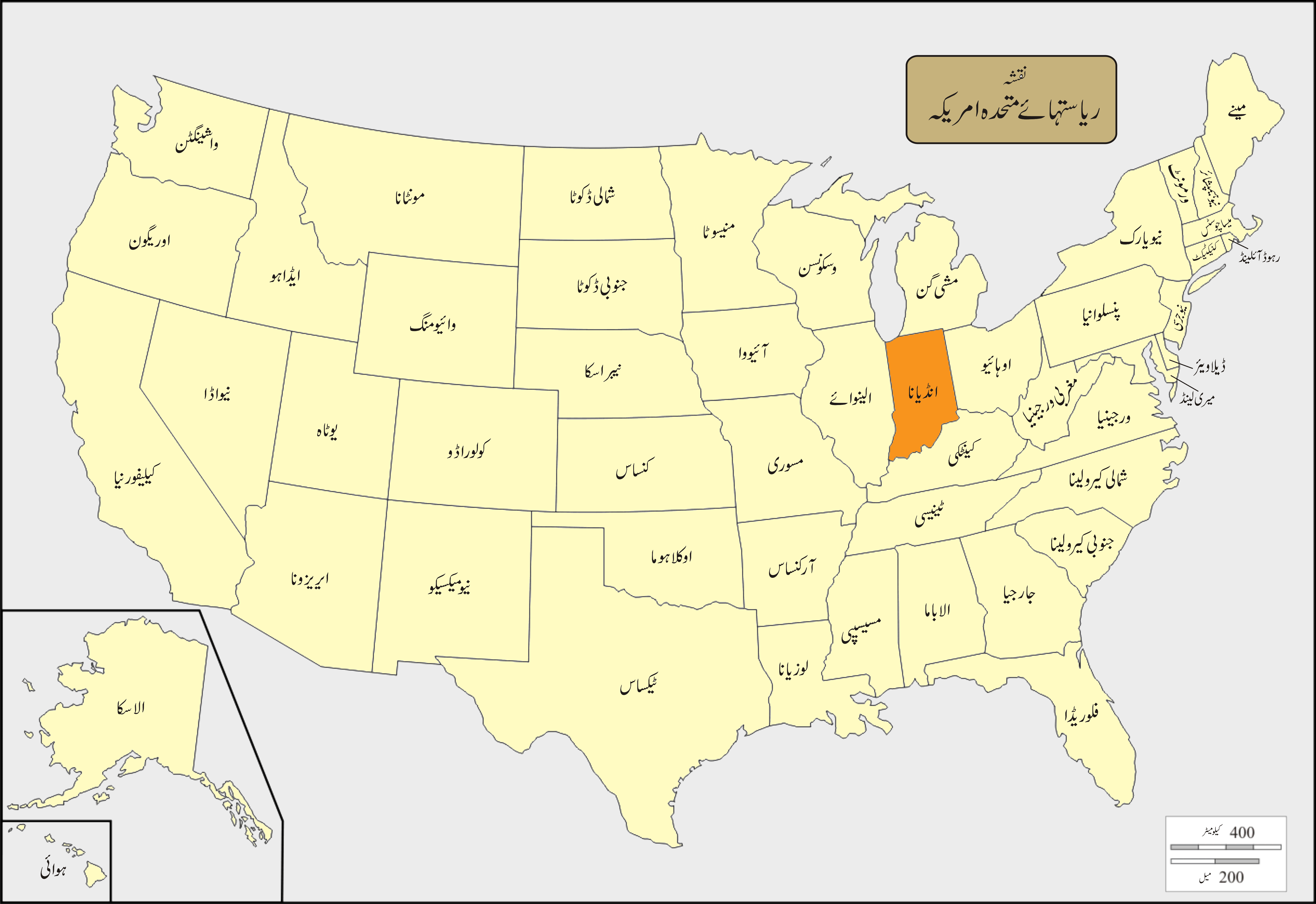 USA Names Indiana